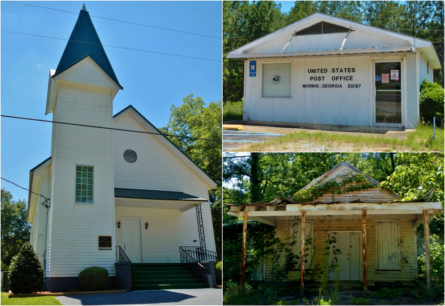 This is a photo collage of Morris, GA.